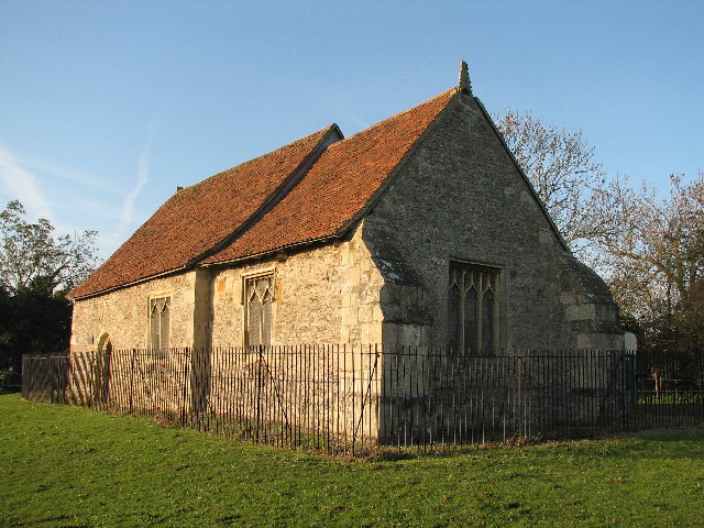 Elston Chapel. Created 1584 as a parish, possibly using the chapel building of St Leonards Hospital. Later became a Chapelry to East Stoke. Transferred to Elston parish in 1872 in a disused state.